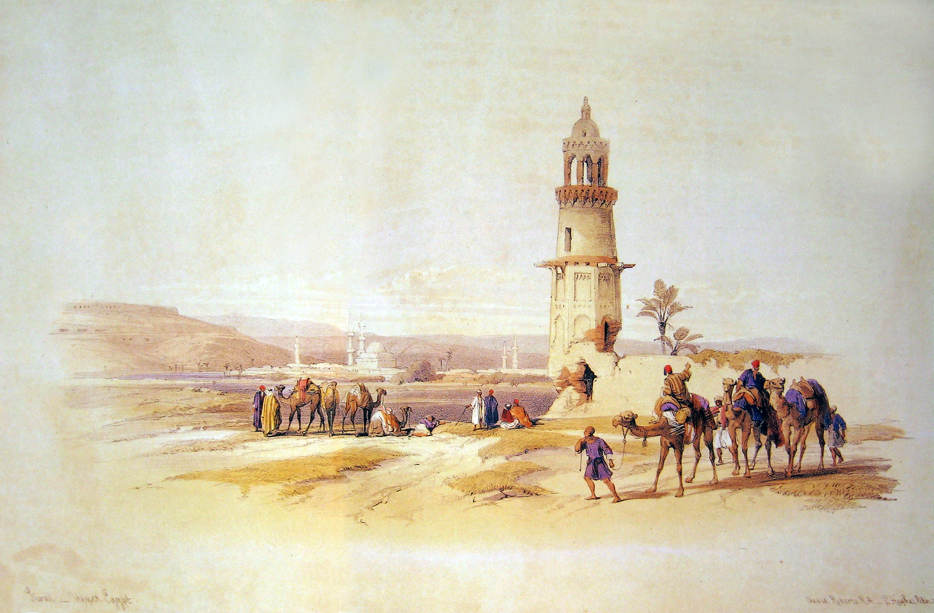 Siout - Upper Egypt